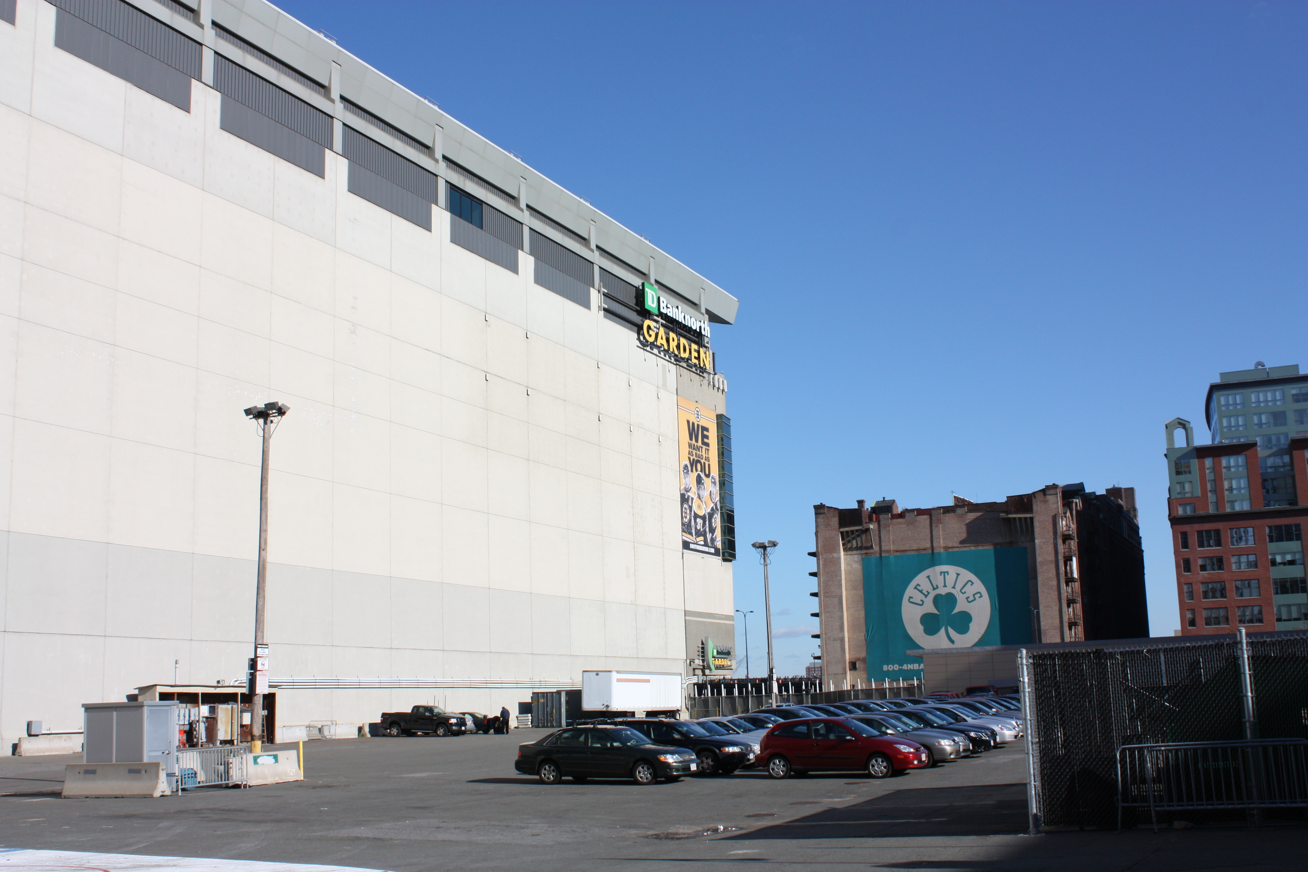 TD Garden seen from the outside